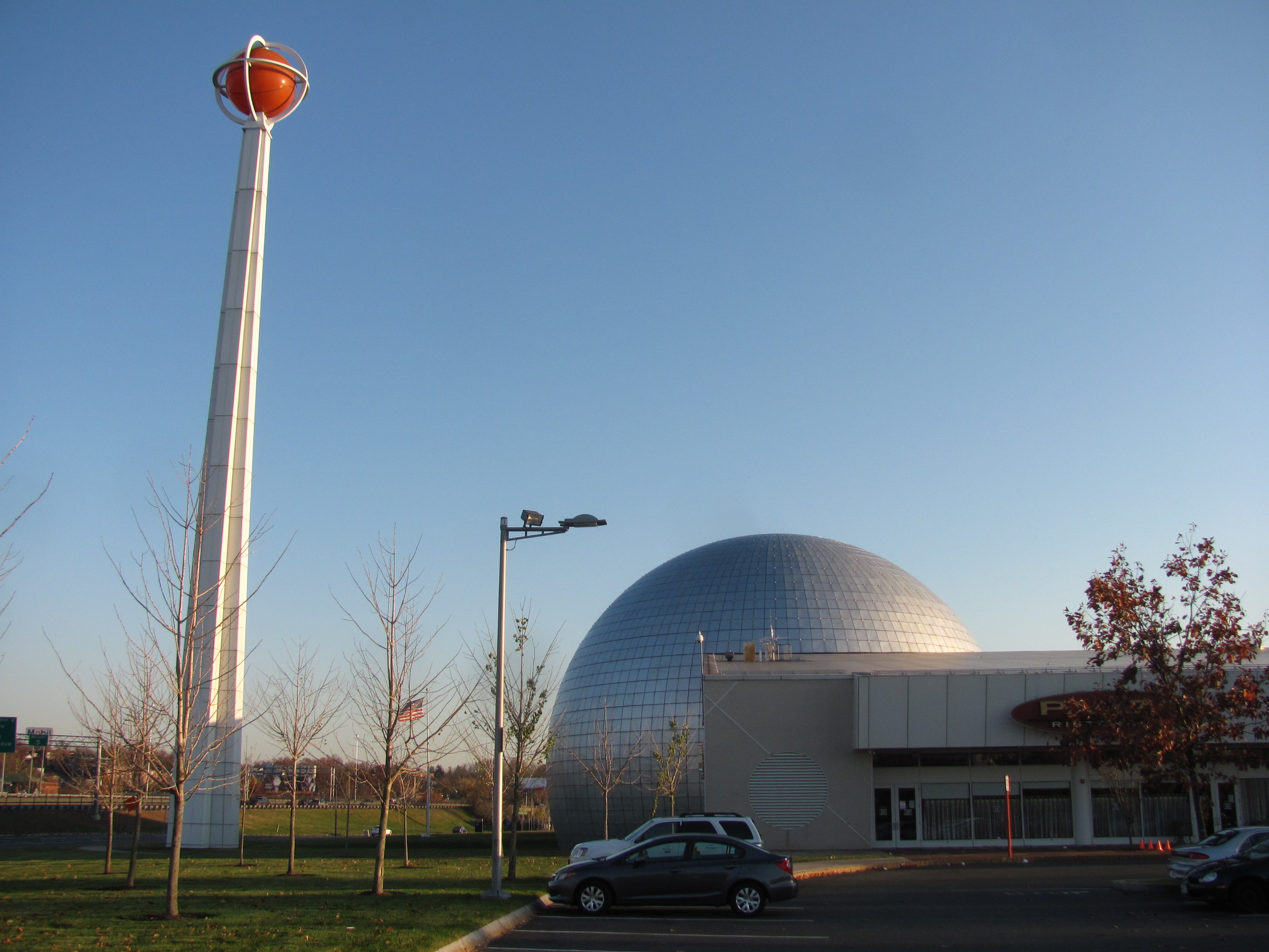 Basketball Hall of Fame, Springfield Massachusetts